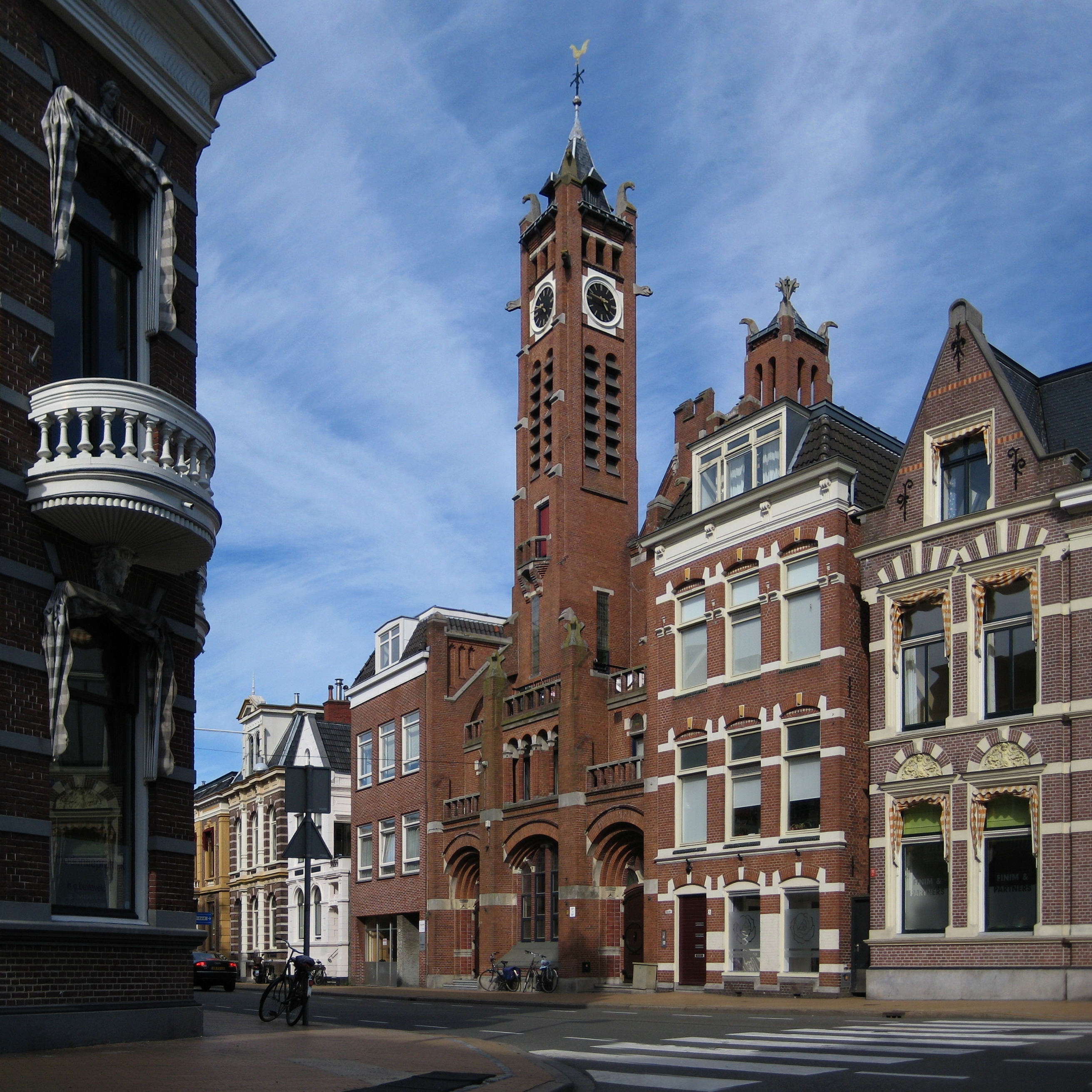 The Zuiderkerk (1900-'01), a church in the Dutch city of Groningen.